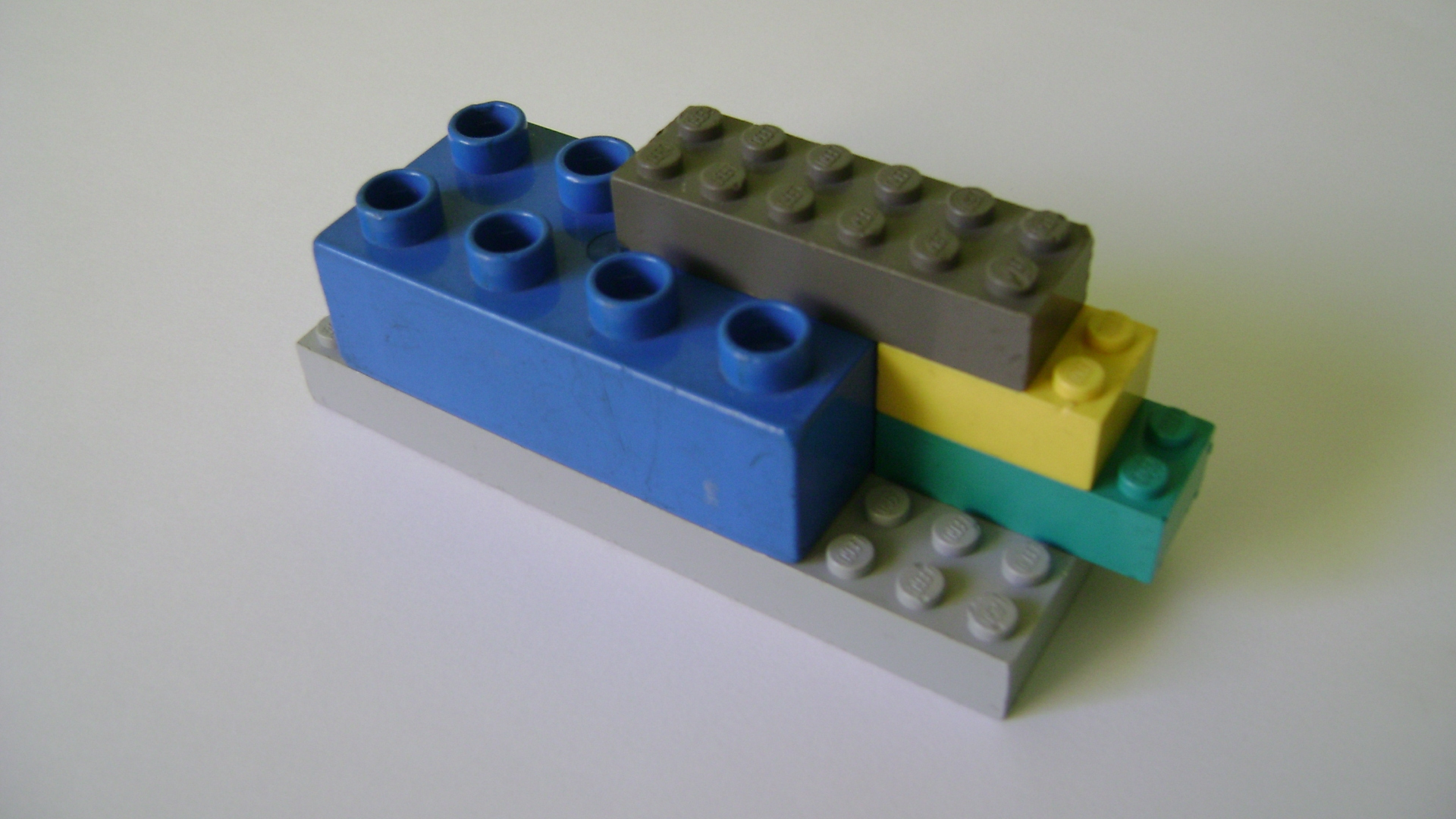 Demostration of the compatibility between Lego & Duplo blocks, it shows a duplo block (Big and blue colored) fitting perfectly with the smaller Lego blocks.